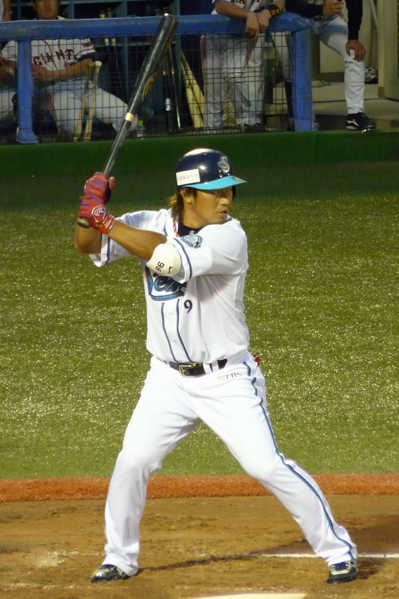 Yosuke Shimokubo